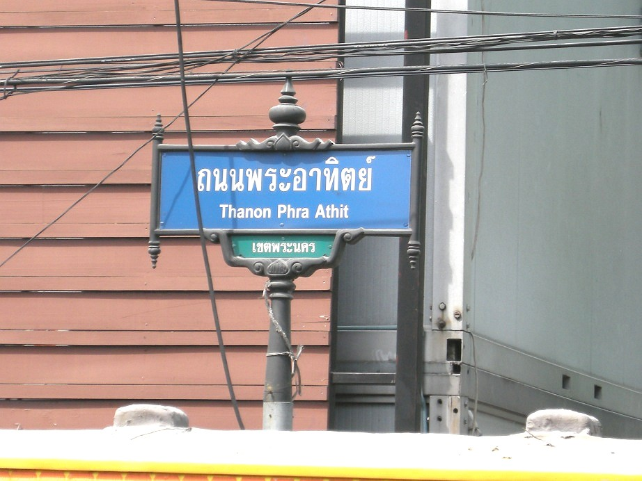 Nameplate of Thanon Phra Athit which leads to Tha Phra Chan Campus of Thammasat University, Khet Phra Nakhon, Bangkok.